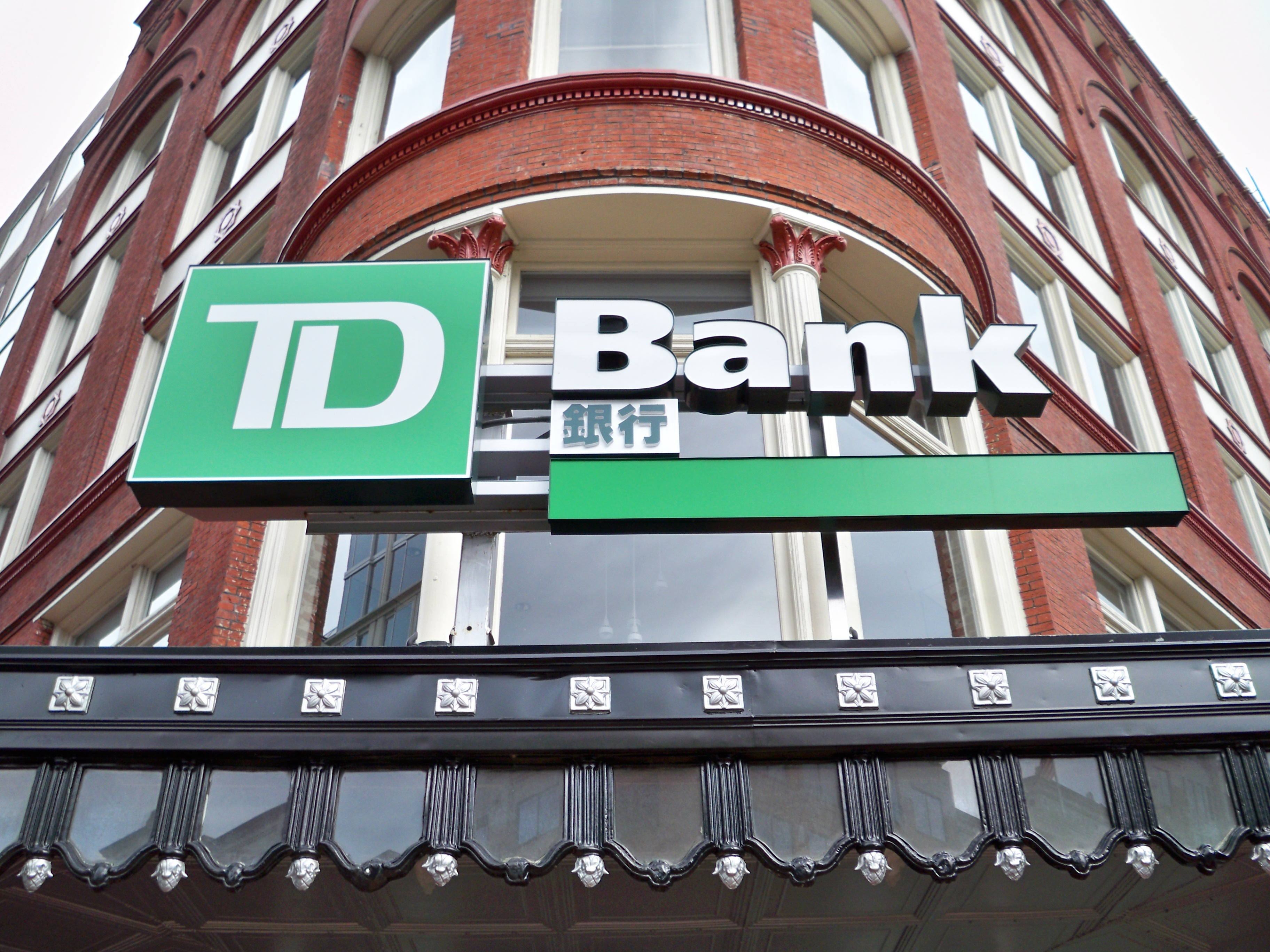 TD Bank branch in Chinatown in Washington, D.C. on 7th street.